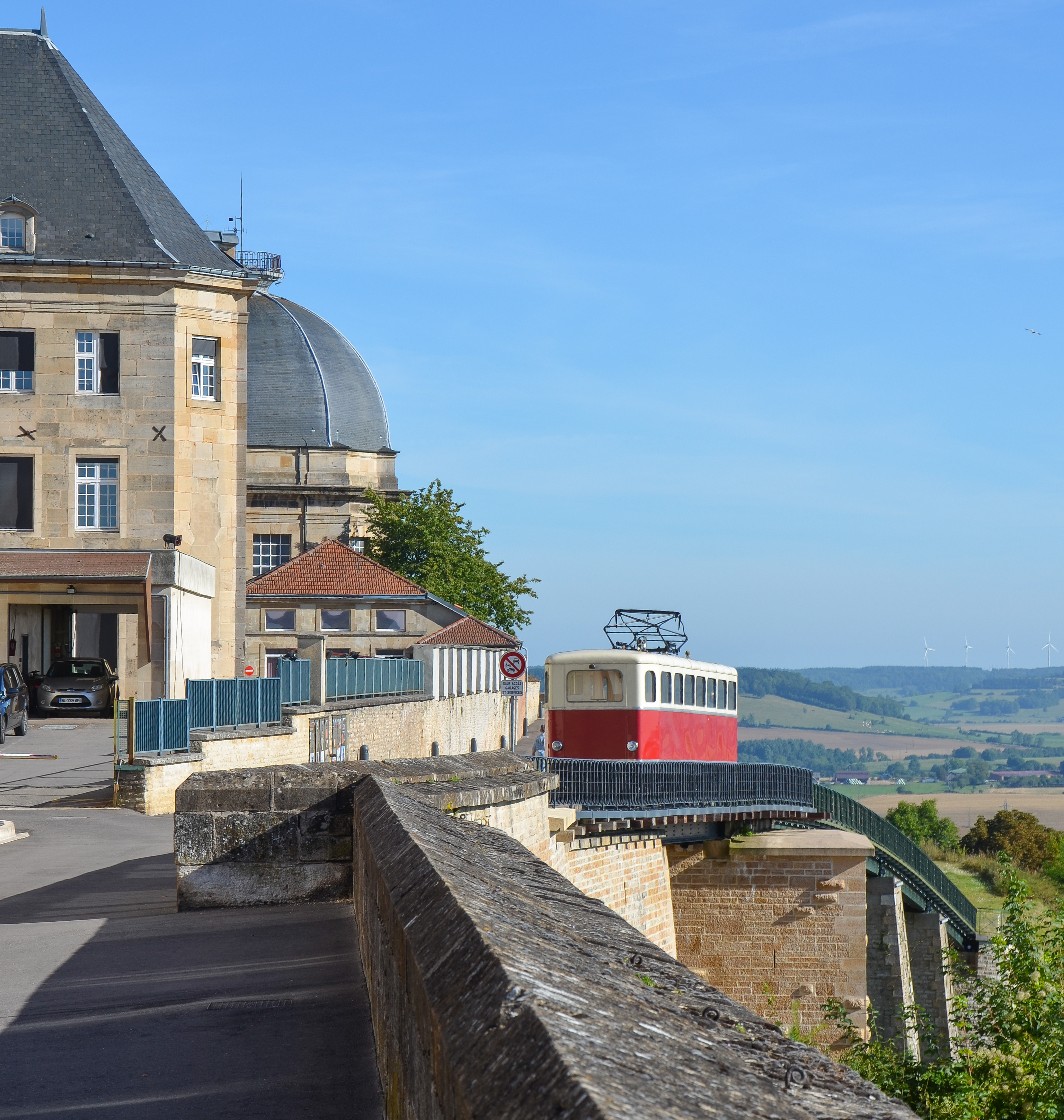 Walls of Langres and electric car of the ancient rack railway, Haute Marne, Champagne-Ardennes, France